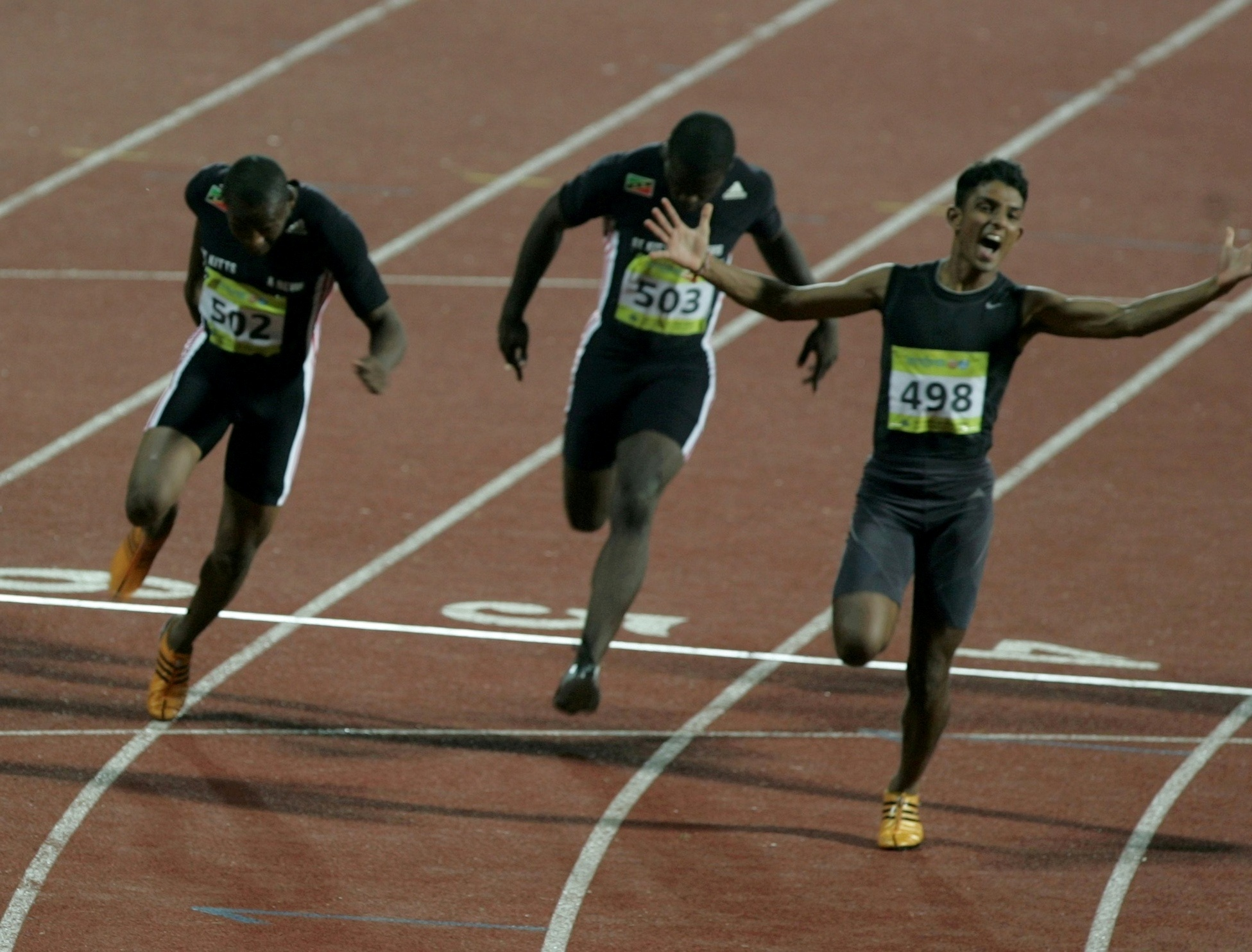 Shehan Ambeypitiya, Srilankan sprinter, winning the gold medal in 100m at Commonwealth Youth Games, pune , 2008